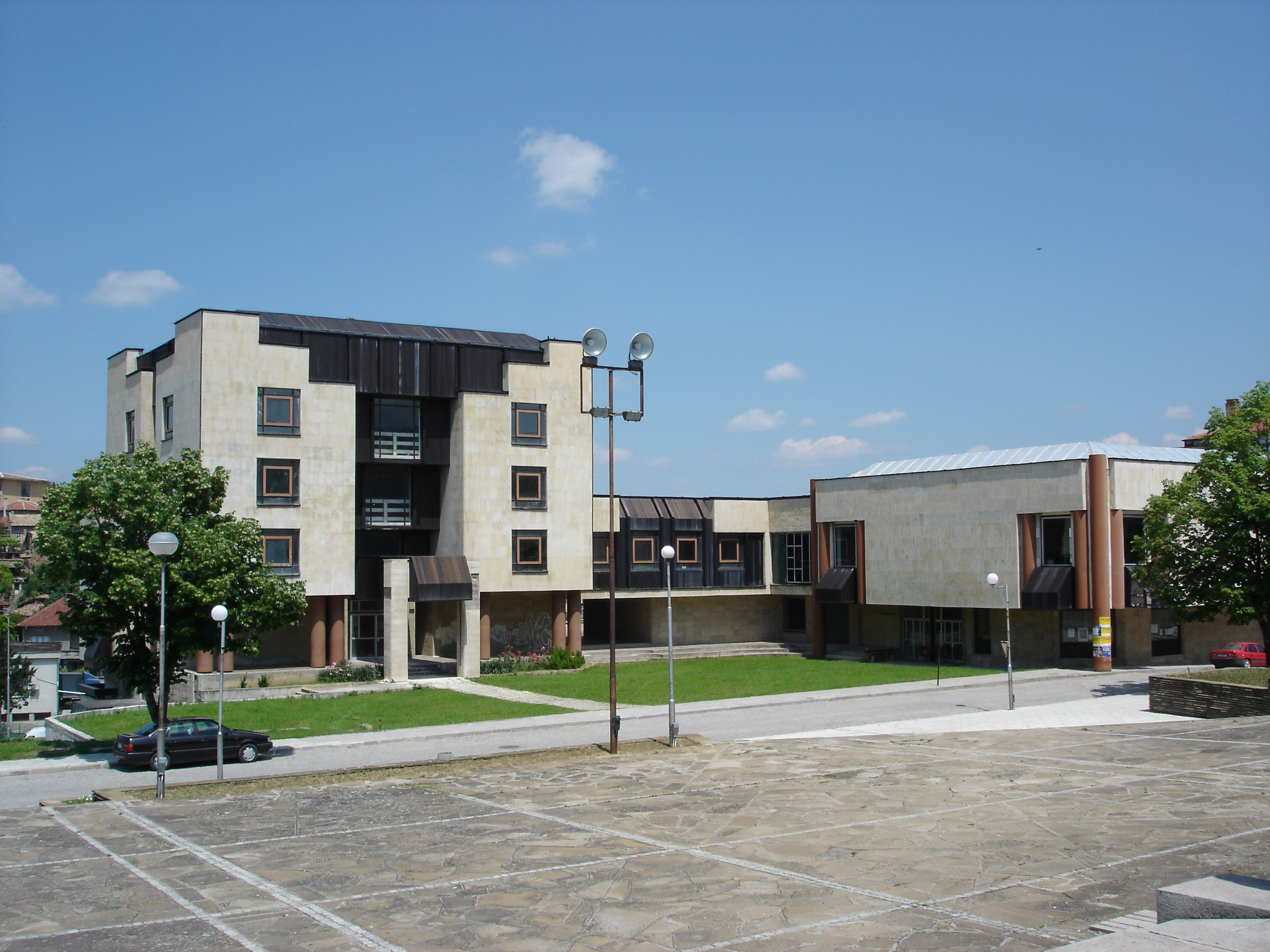 Municipality Veliki Preslav